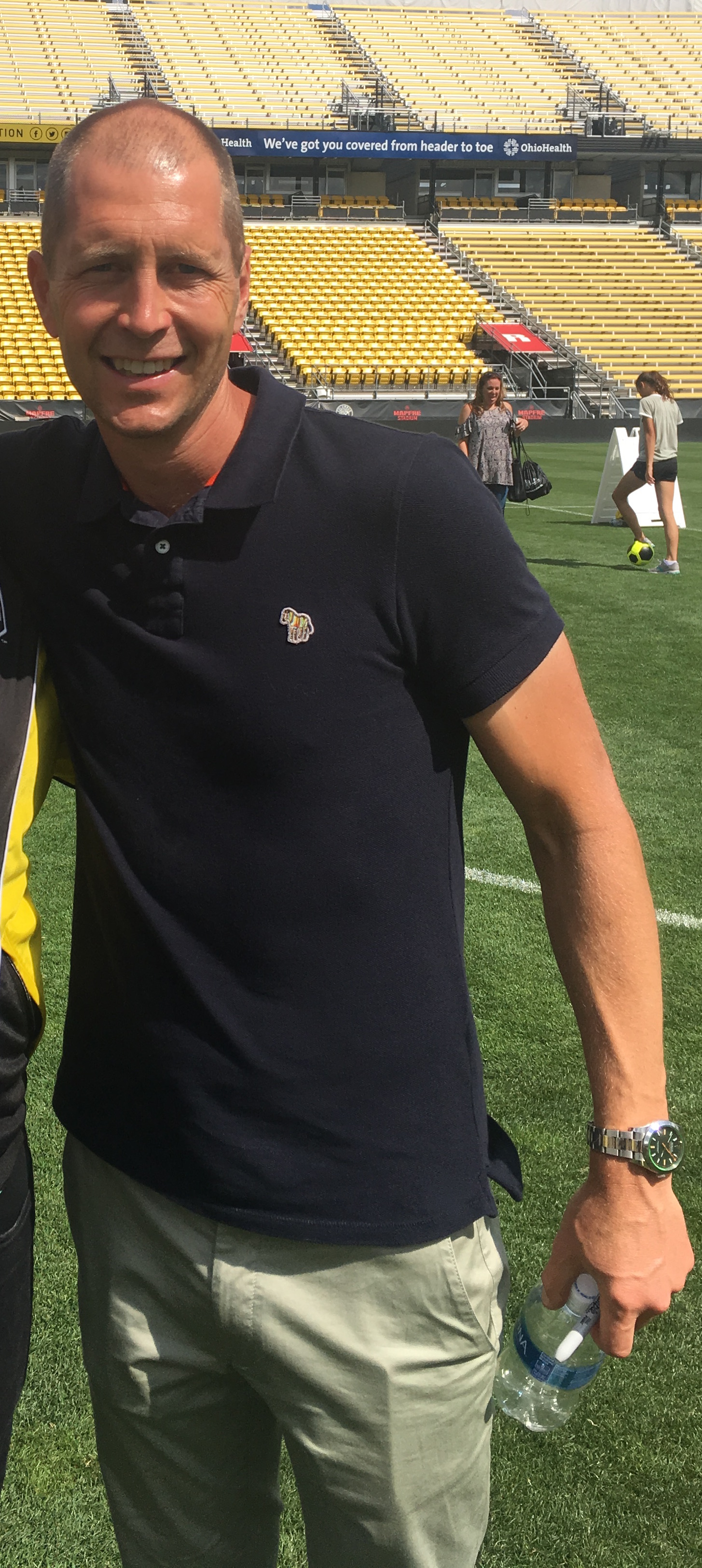 Picture of Gregg Berhalter at a Columbus Crew SC Meet the Team event in 2017.